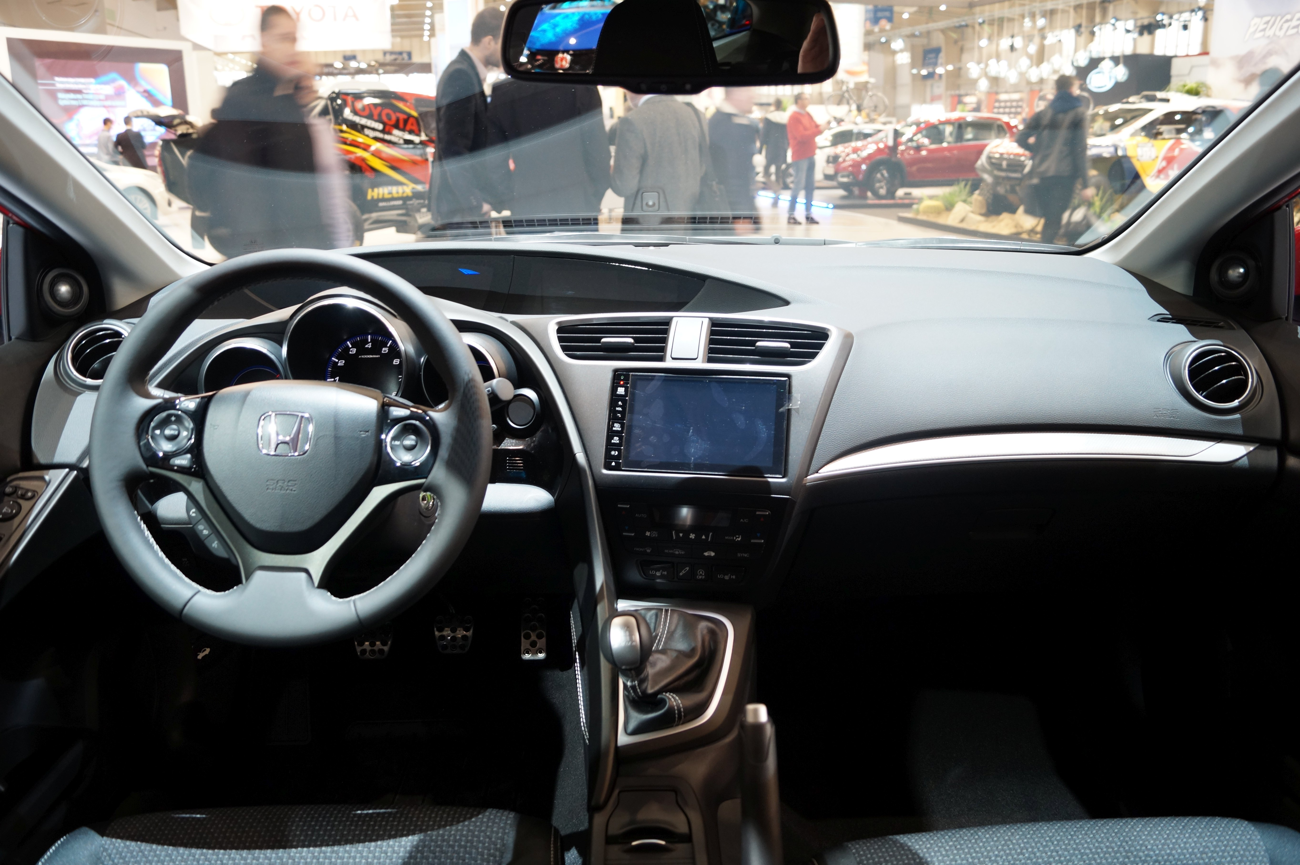 The making of this document was supported by Wikimedia Polska Association, within Wikigrant no. WG 2016-10. Wnętrze Hondy Civic na Motor Show Poznań 2016